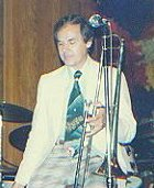 Urbie Green at the Village Jazz Lounge in Walt Disney World.